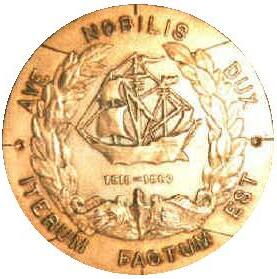 photograph of the plaque created by the crew of USS Triton (SSRN-586) to commemorate Ferdinand Magellan's and their circumnavigations of the world.